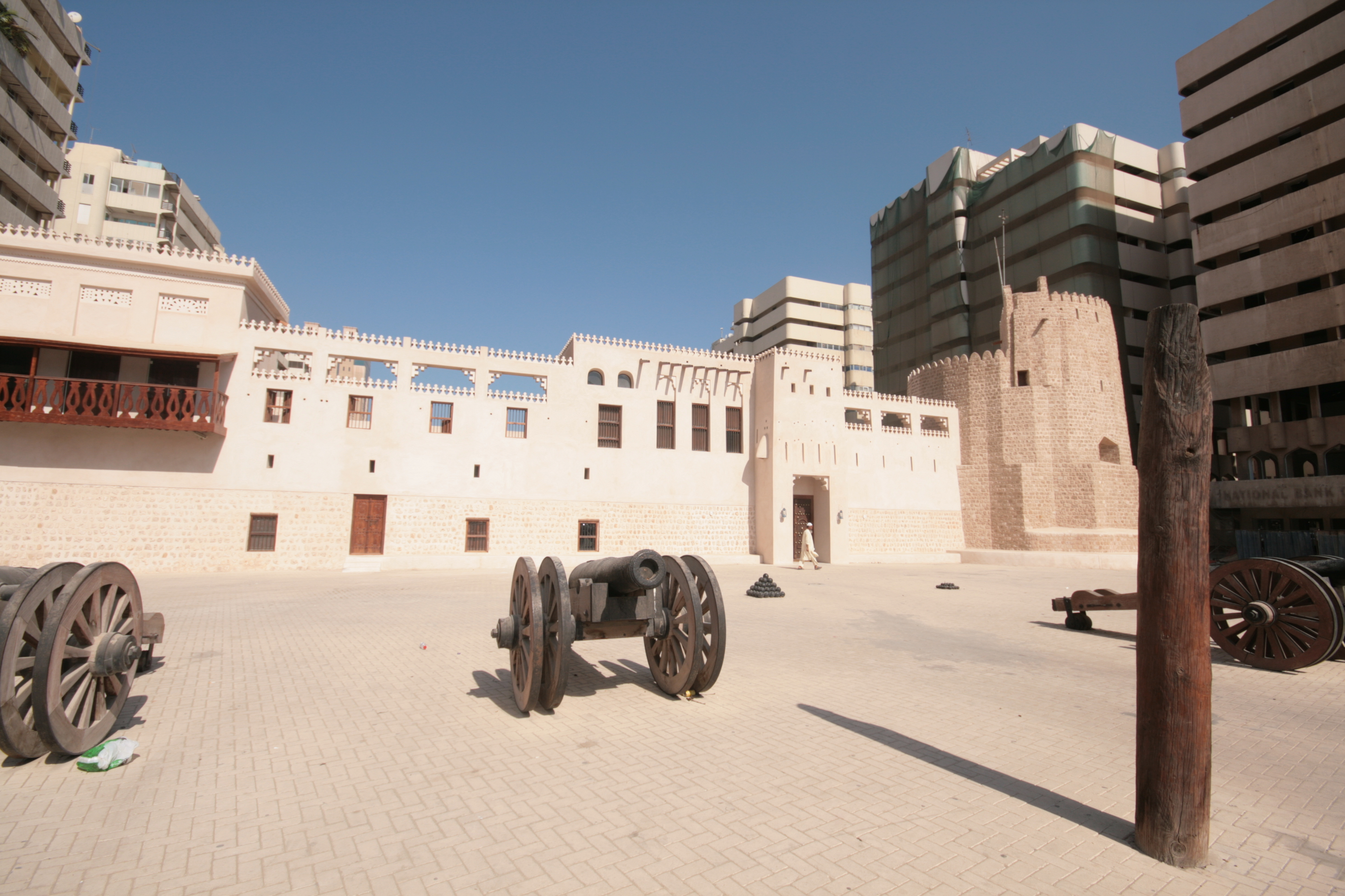 The front of Sharjah Fort. The pole was used for flogging.